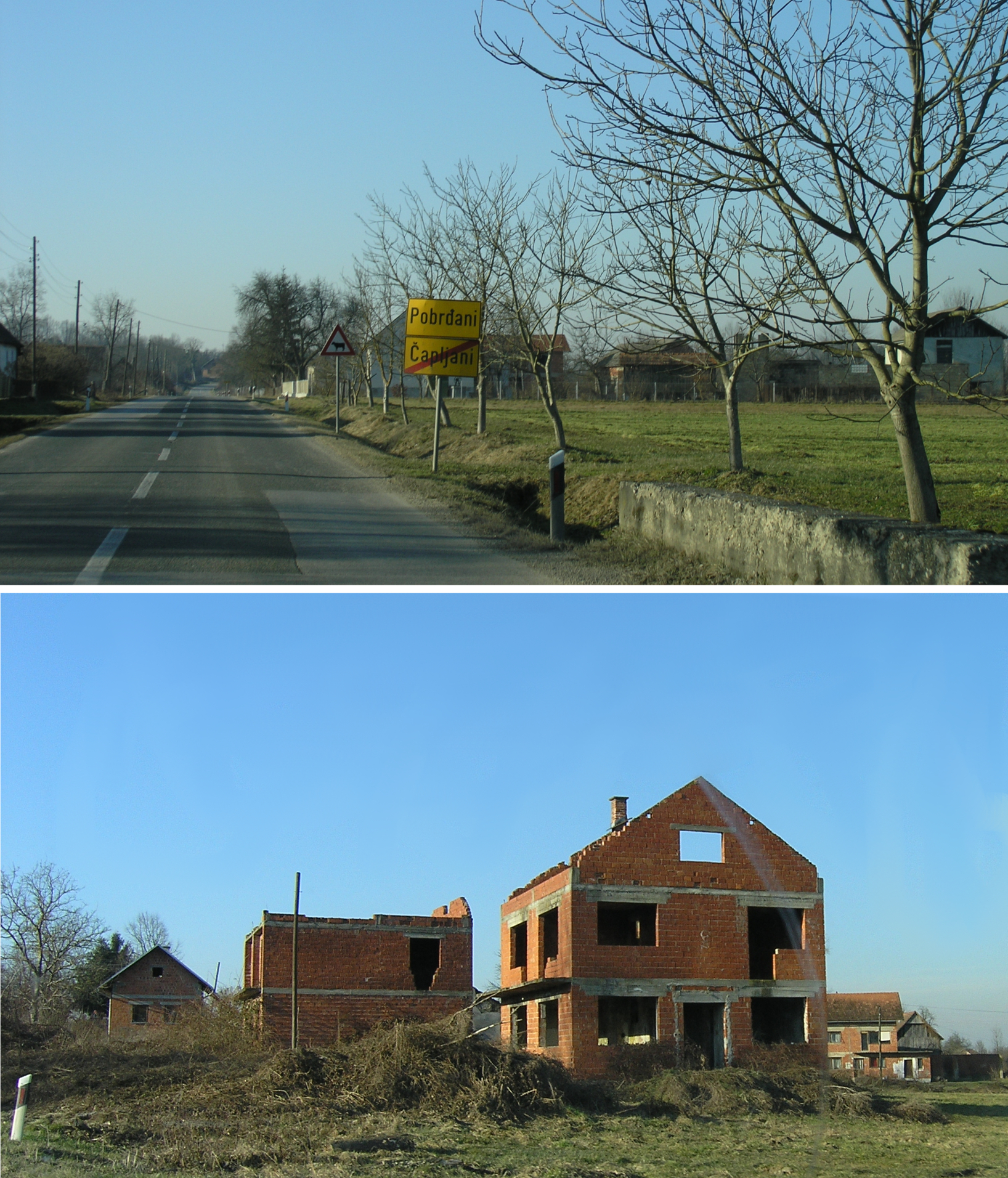 Village Pobrđani, Sisak-Moslovina county, Croatia. Destroyed and abandoned Serbian houses.